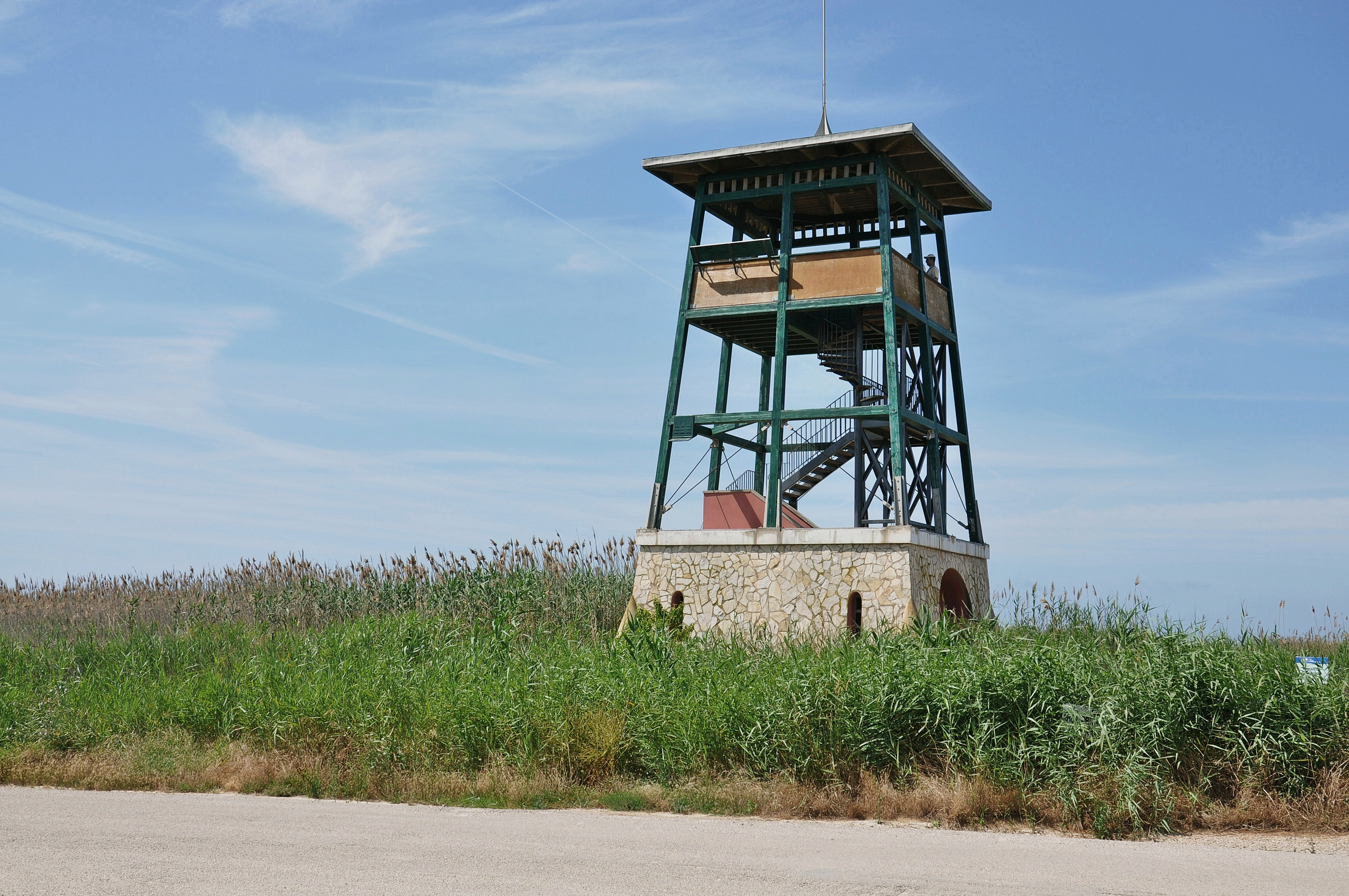 puesto de observacion del delta-2011